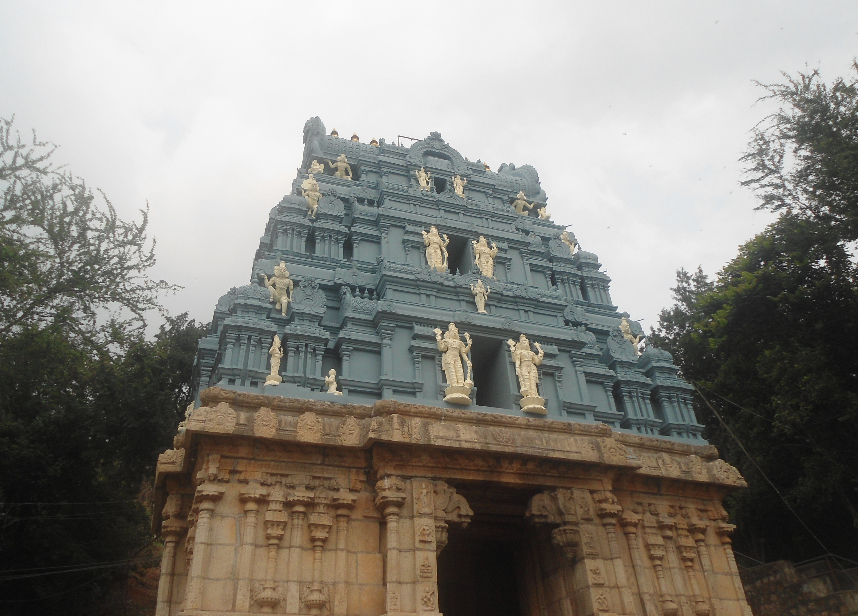 Mokallamitta Gopuram near Tirumala, Andhra Pradesh